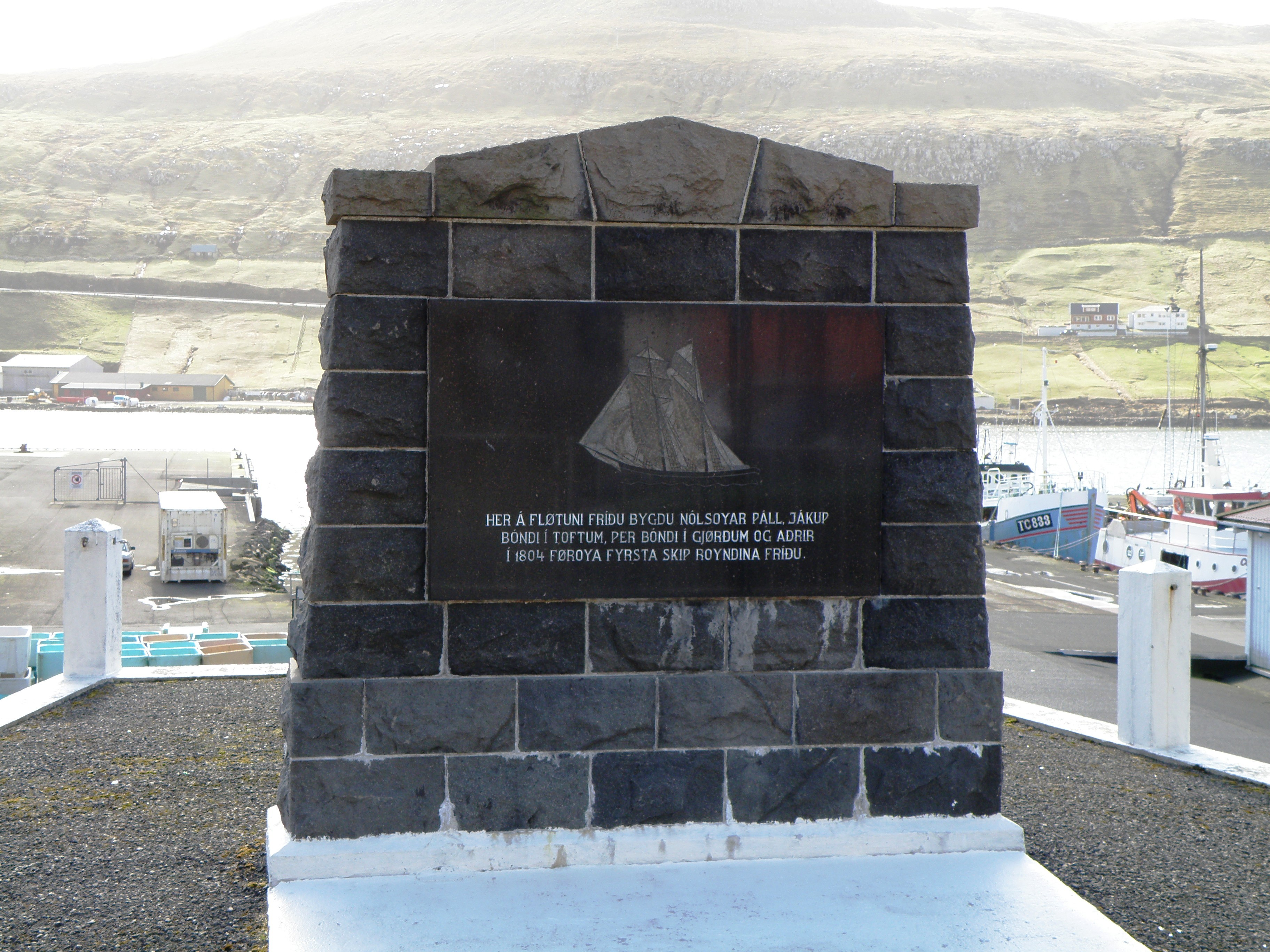 Memorial in Vágur, Faroe Islands in memory of Nólsoyar Páll from Nólsoy, Jákup bóndi í Toftum from Vágur and Per bóndi í Gjørðum from Porkeri, who built the first Faroese ship since Medieval times. They built with others Royndin Fríða in 1804 on the place where the memorial is now. The memorial is in the centre of town, close to the church, on the mainroad Vágsvegur. Føroyskt: Minnisvarðin á myndini er til minnis um at Føroya fyrsta skip varð bygt í Vági, har sum minnisvarðin nú stendur. Tað vóru Nólsoyar Páll, Jákup bóndi í Toftum (í Vági) og Per bóndi í Gjørðum (í Porkeri) sum saman við øðrum bygdu skipið Royndina Fríðu. Royndin Fríða var fyrsta skip sum bleiv bygt í Føroyum síðan miðøld. Tað var Tóri Nattestad, ið gjørdi minnisvarðan.